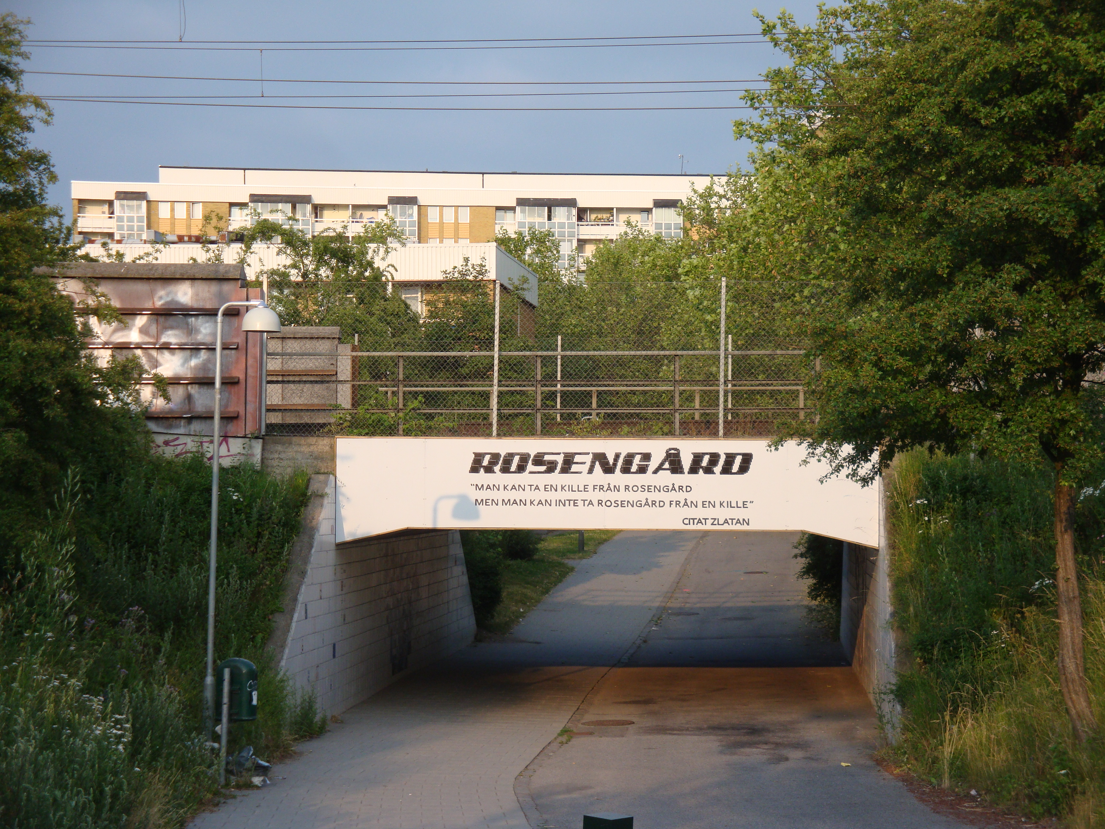 Railroad viaduct over walk and cycling path to the housing projects of Rosengård, Malmö. The sign has a quote from swedish soccerplayer Zlatan Ibrahimovic: "You can take a kid out of Rosengård, but you can never take Rosengård out of that kid"